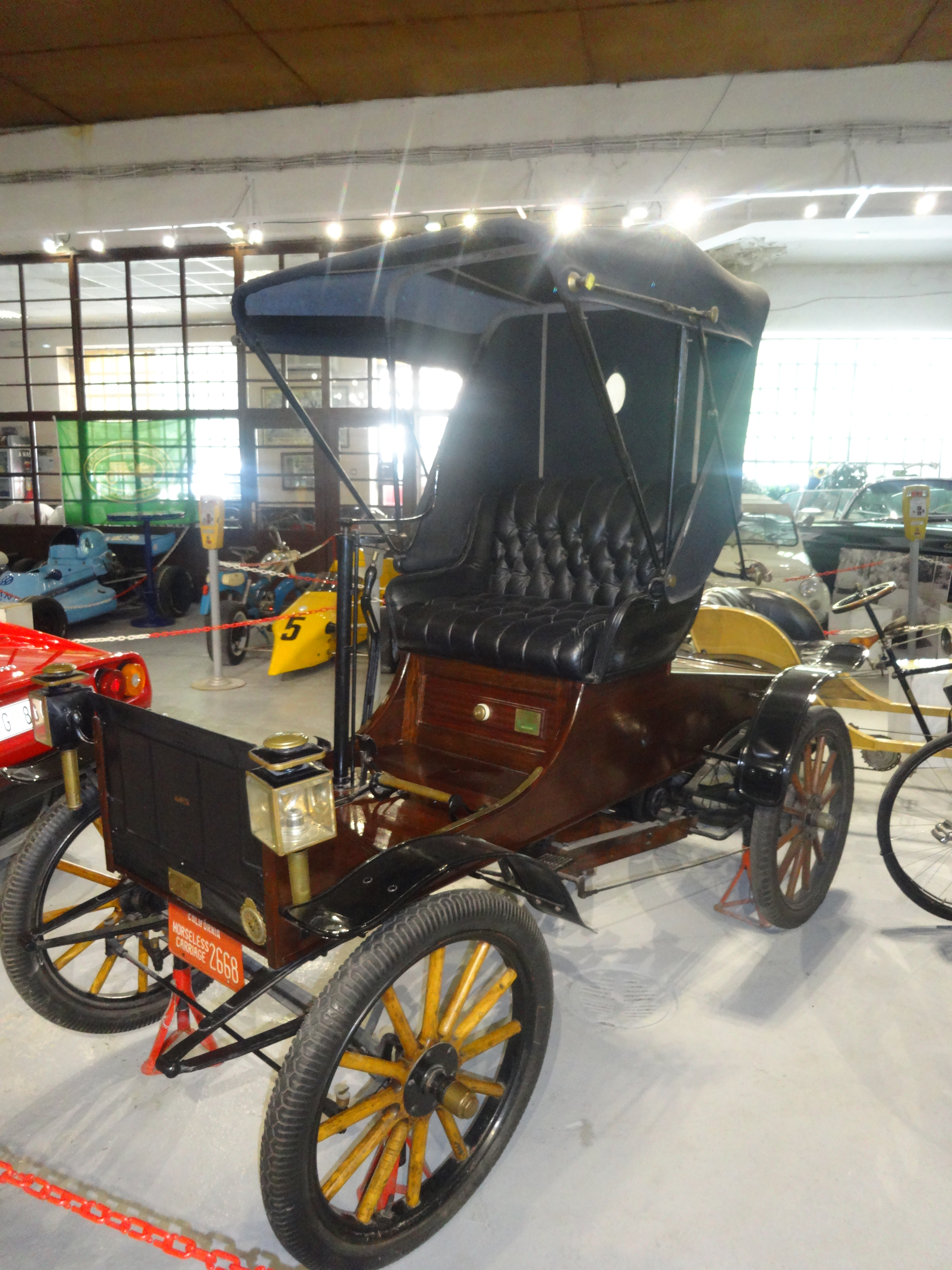 This media file is allowed by the Automobile museum of Belgrade, Serbia. Engine: two cylinder Capacity: 2000 cm3 Power: 12 hp/1600 rpm. Max. speed: 40 km/h Transmission: two speed+reverse